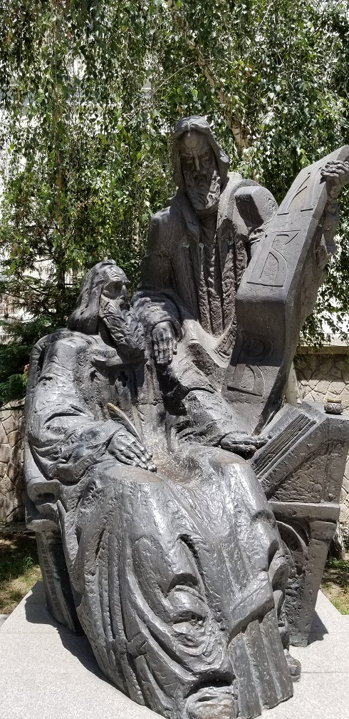 Monument to Sts. Cyril and Methodius in Plovdiv